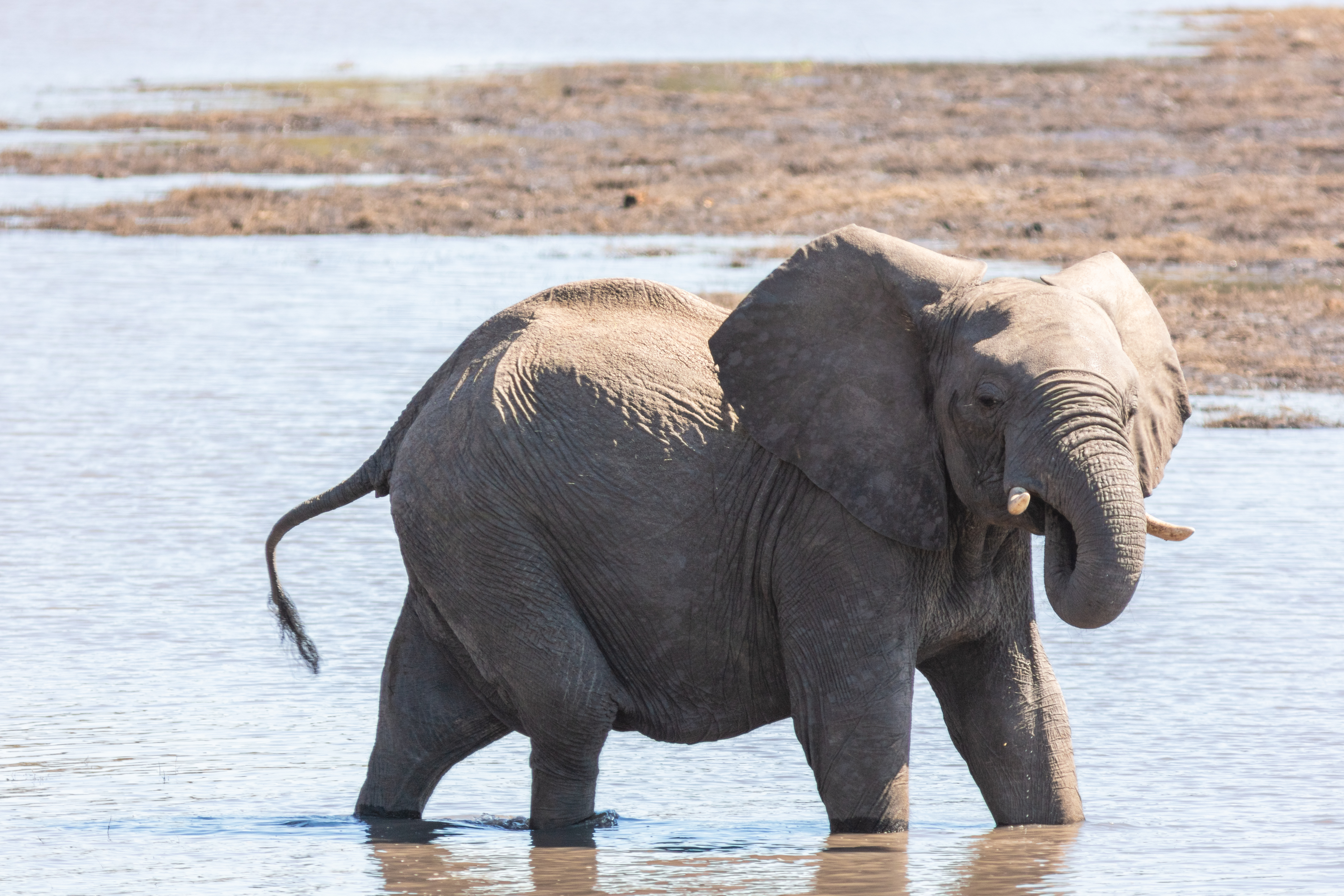 African bush elephant (Loxodonta africana), Chobe National Park, Botsuana